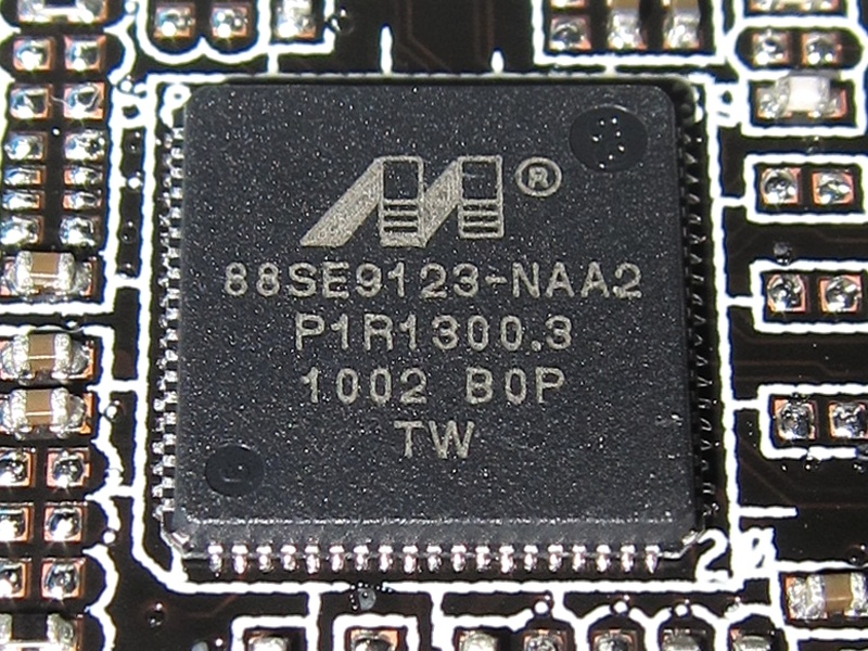 Photograph of Marvell 88SE9123 on ASUS P7P55D-E EVO. photo date August 25, 2010